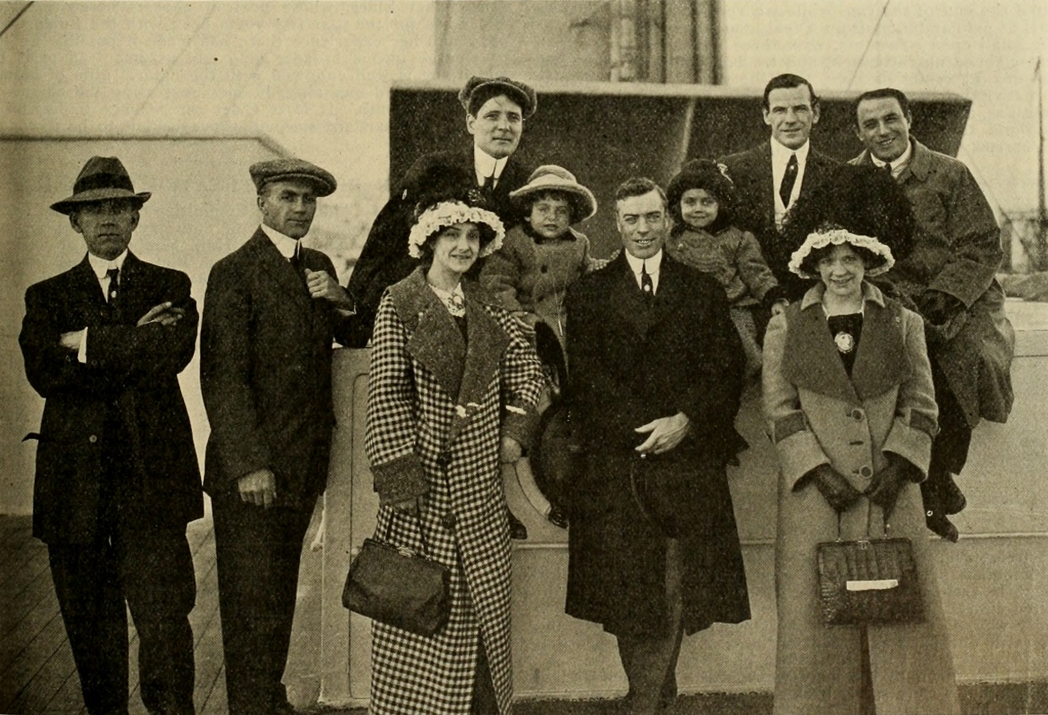 The players of the Kalem Company on White Star's S.S. Adriatic en route to Madeira, December 1911. Sitting above, from left: Jack J. Clark, George Hollister, Jr., Ethel Dorris Hollister, J. P. McGowan, Robert Vignola. Standing, from left: George Hollister, J. A. Farnum, Alice Hollister, Sidney Olcott, Gene Gauntier.